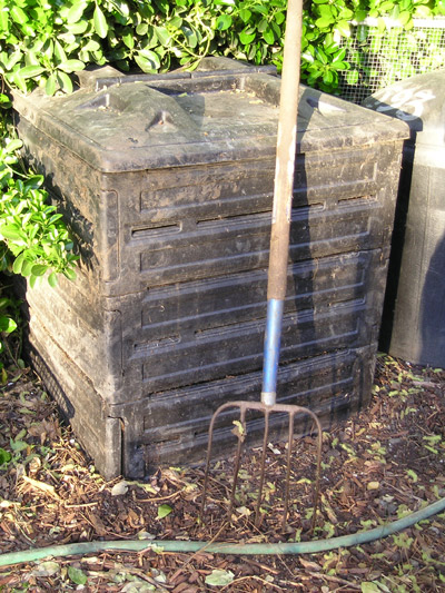 Commercial compost bin (stacking); each level is a hollow square that can be removed individually to facilitate building, turning, and removing the compost pile.